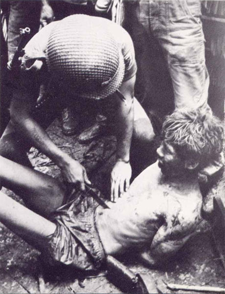 US/ARVN kill prisoner, Vietnam